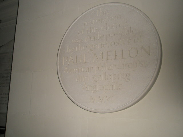 Plaque to an anglophile within St George's, Bloomsbury Namely Paul Mellon Paul_Mellon